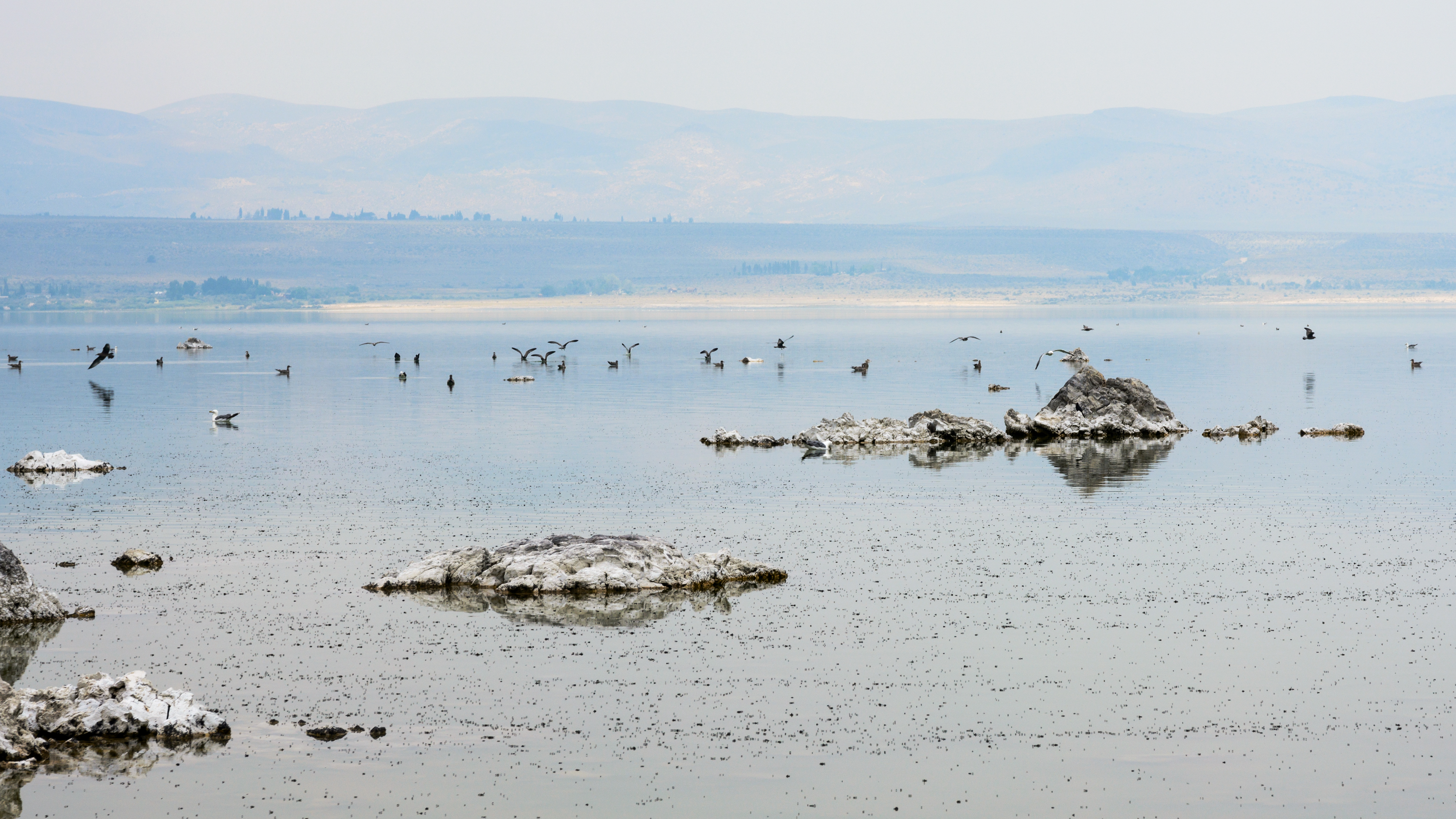 A view of the Mono Lake with birds flying over (California, United States).